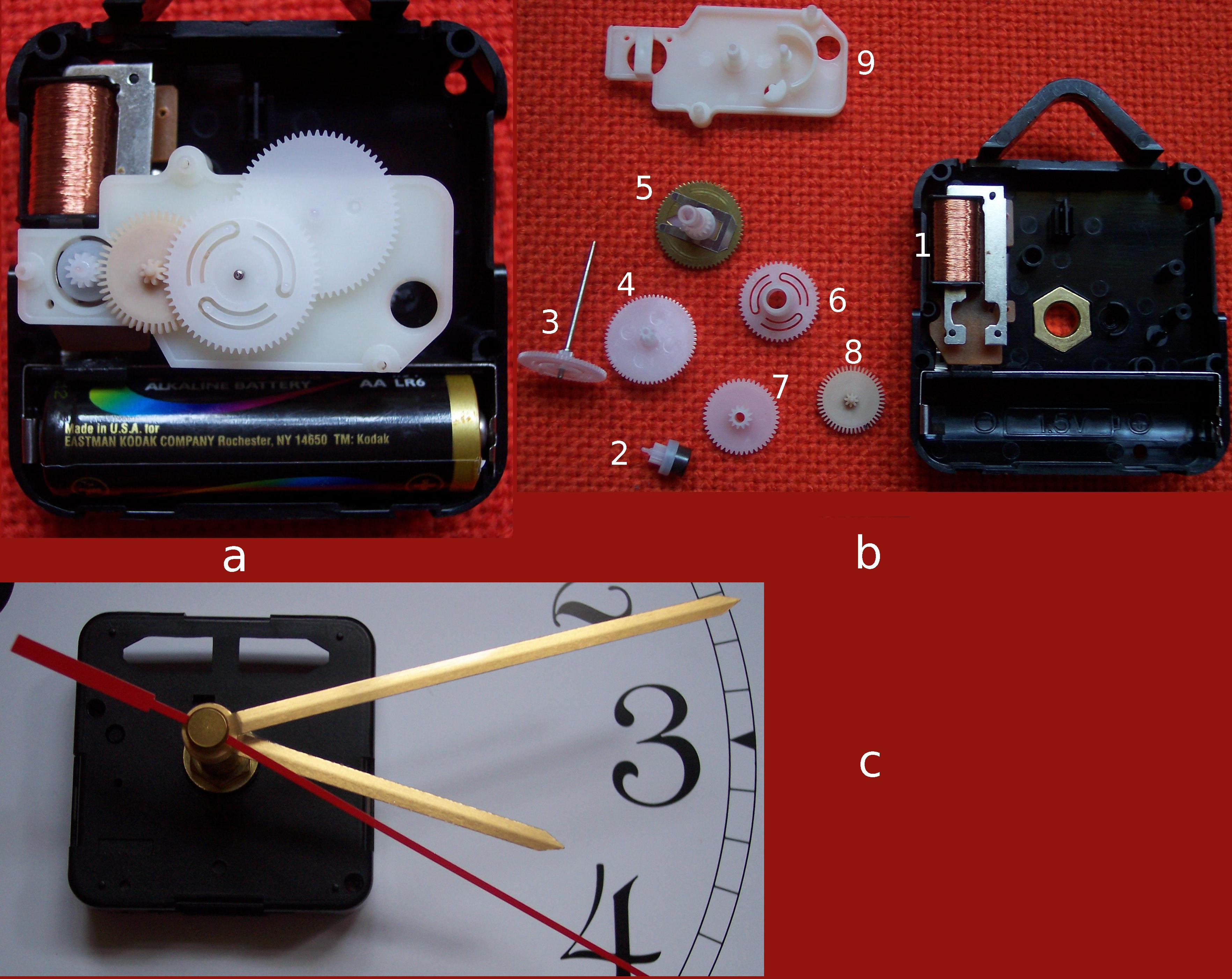 Wall-clock mechanism. Components are shown. xfmmmmmg b